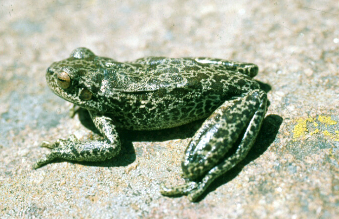 Hypsiboas pulchellus cordobae